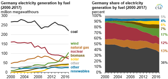 In January 2019, Germany’s government-appointed coal commission introduced a proposed pathway to phase out all coal electricity generation by 2038. This phaseout is part of the country’s Energiewende—a planned transition to low-carbon domestic energy production. May 29, 2019